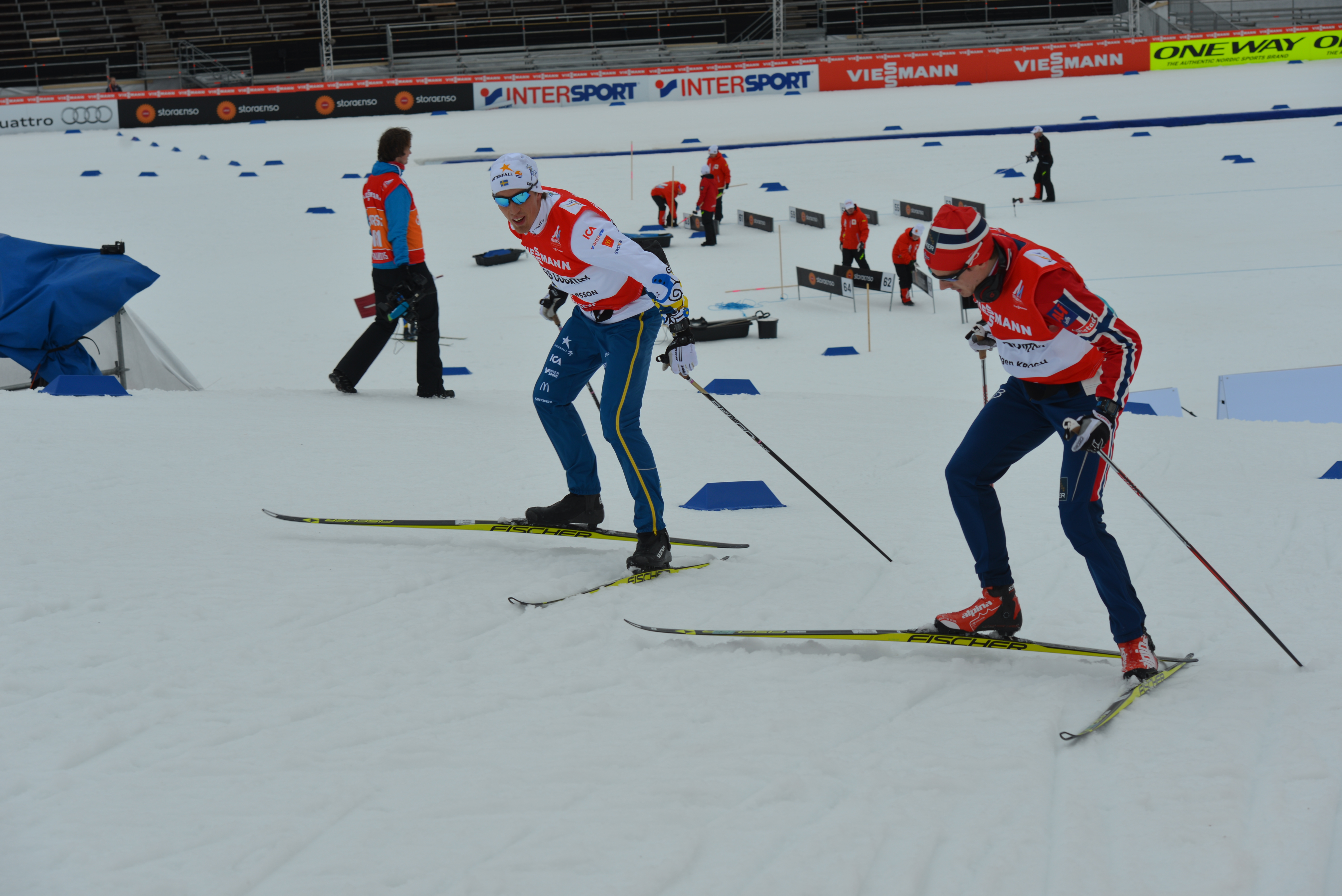 Cross-country athletes during an open training session at the FIS Nordic World Ski Championships 2015 in Falun